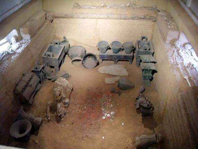 Tomb of Lady Fu Hao, Yinxu, Henan, China